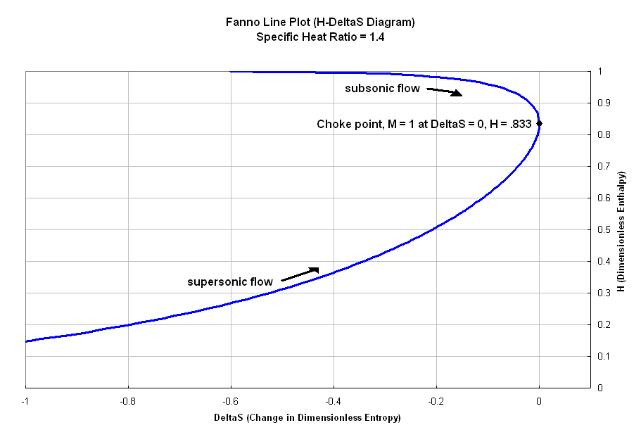 This is a Fanno line graph